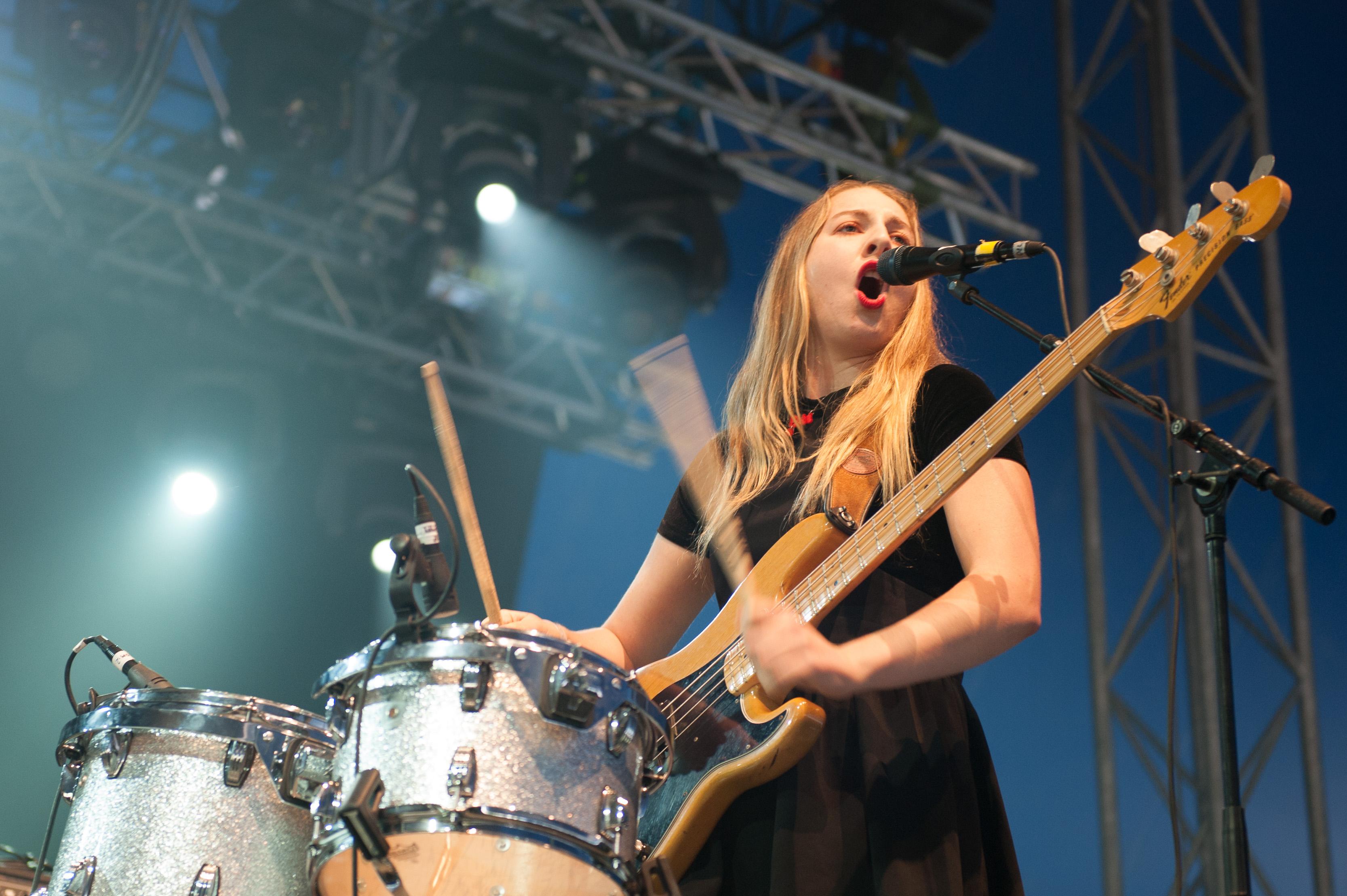 Este Haim at Way Out West 2013 in Gothenburg, Sweden